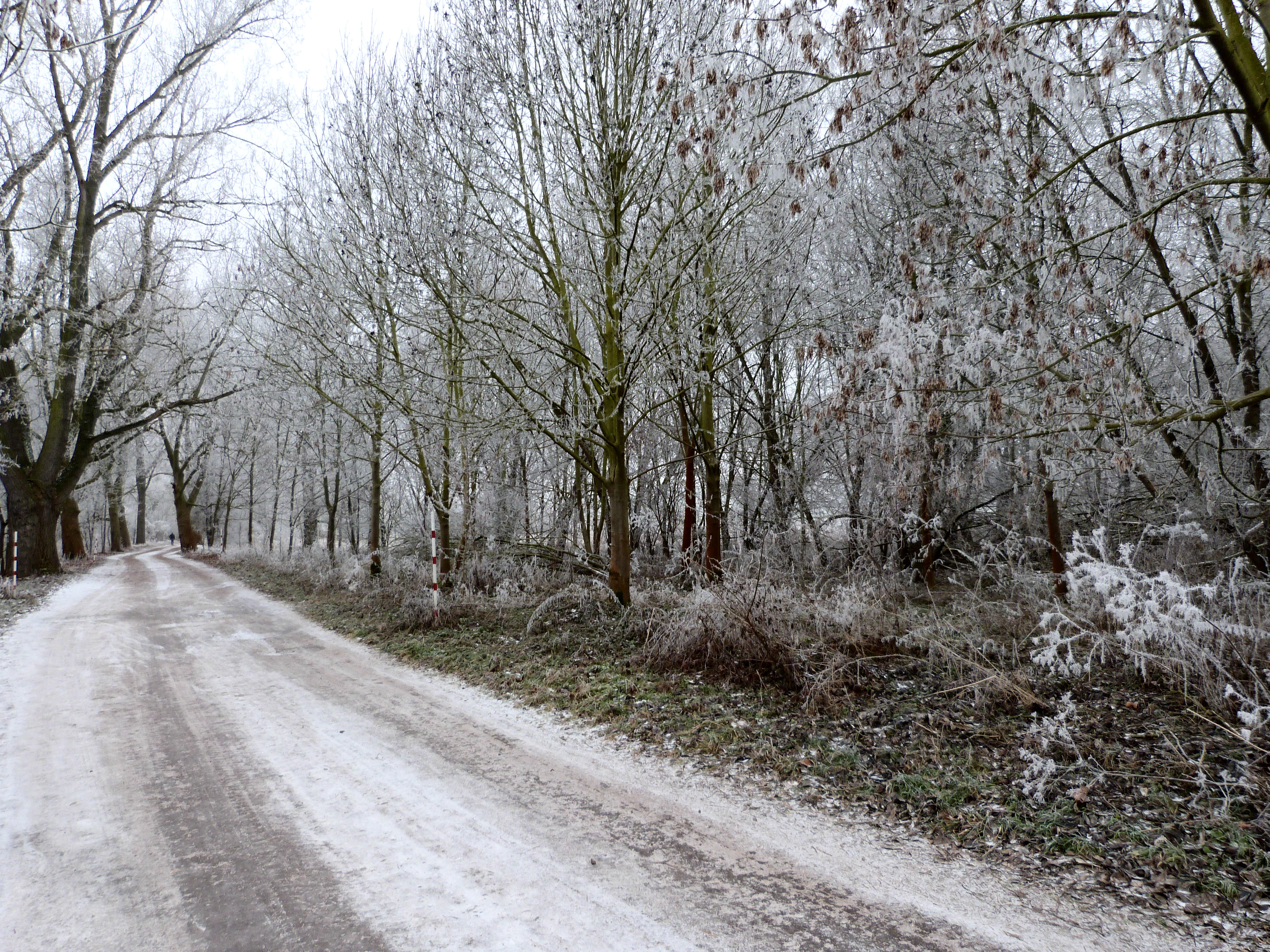 Nature reserve Saaleaue, Halle (Saale)